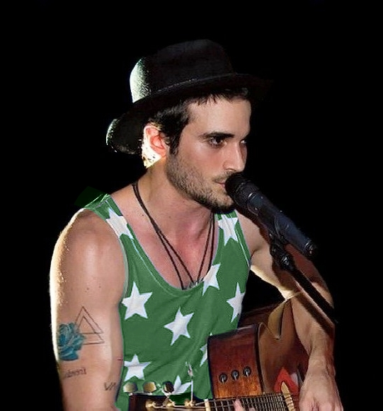 Fiuk canta na turnê Nós na Sala em 2017.